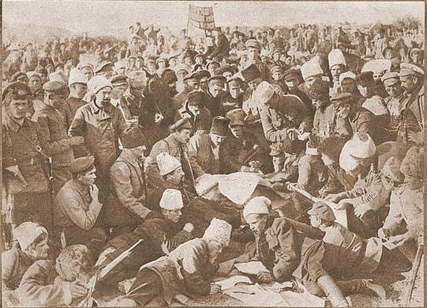 Makhnovist headquarters and command staff discuss plans to defeat Wrangel troops, Starobelsk. Taken 1920.